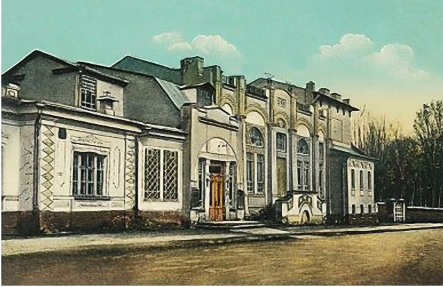 Building of public meeting in Tashkent. 1910 year